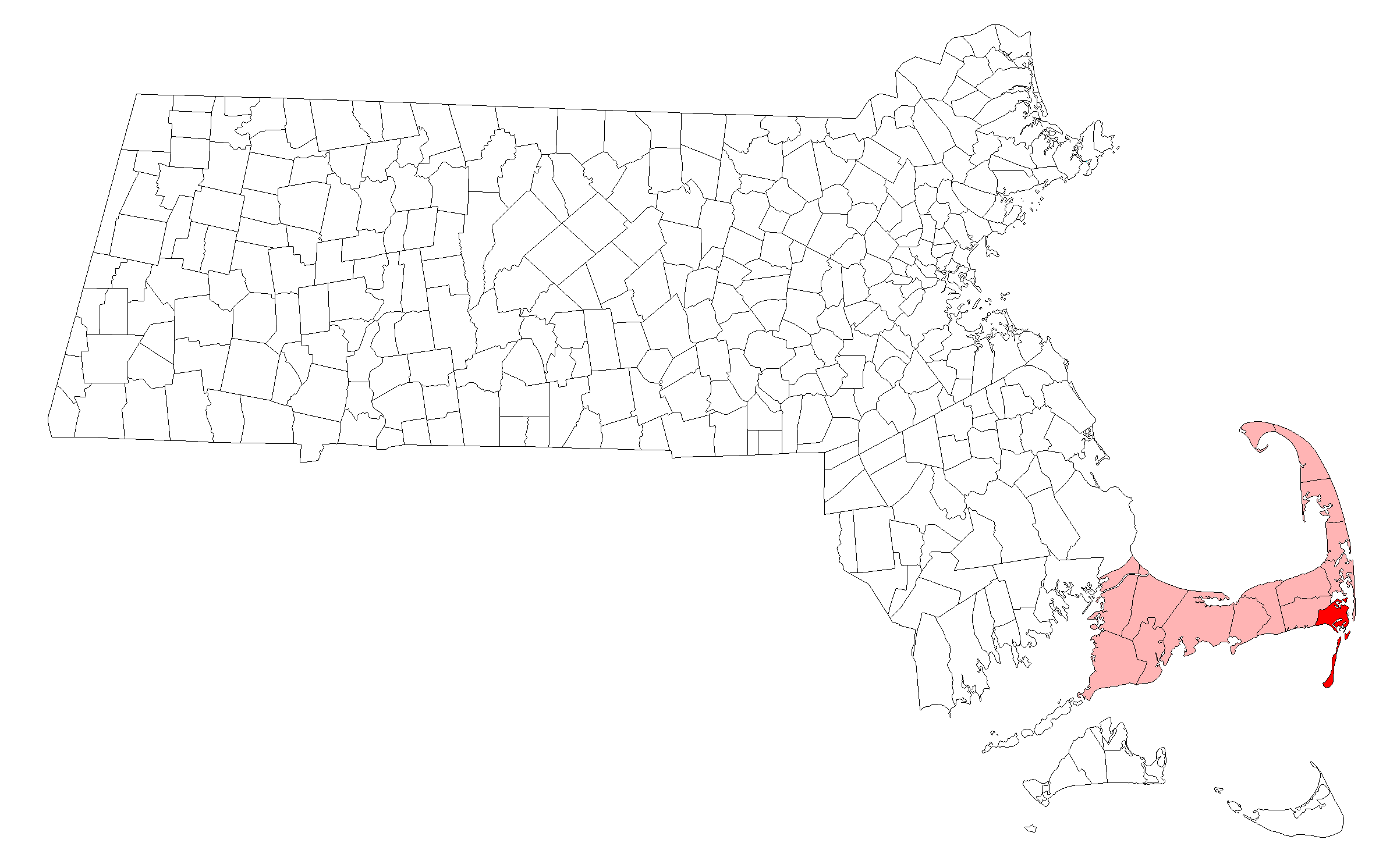 Location of Chatham within Barnstable County, MA